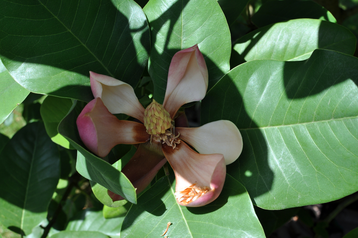 Magnolia delavayi Conservatoire botanique national de Brest Native nameConservatoire botanique national de BrestLocationBrest, France, FranceCoordinates48° 24′ 10″ N, 4° 26′ 54″ W Established1975: established, 1978: opened to publicWebsite